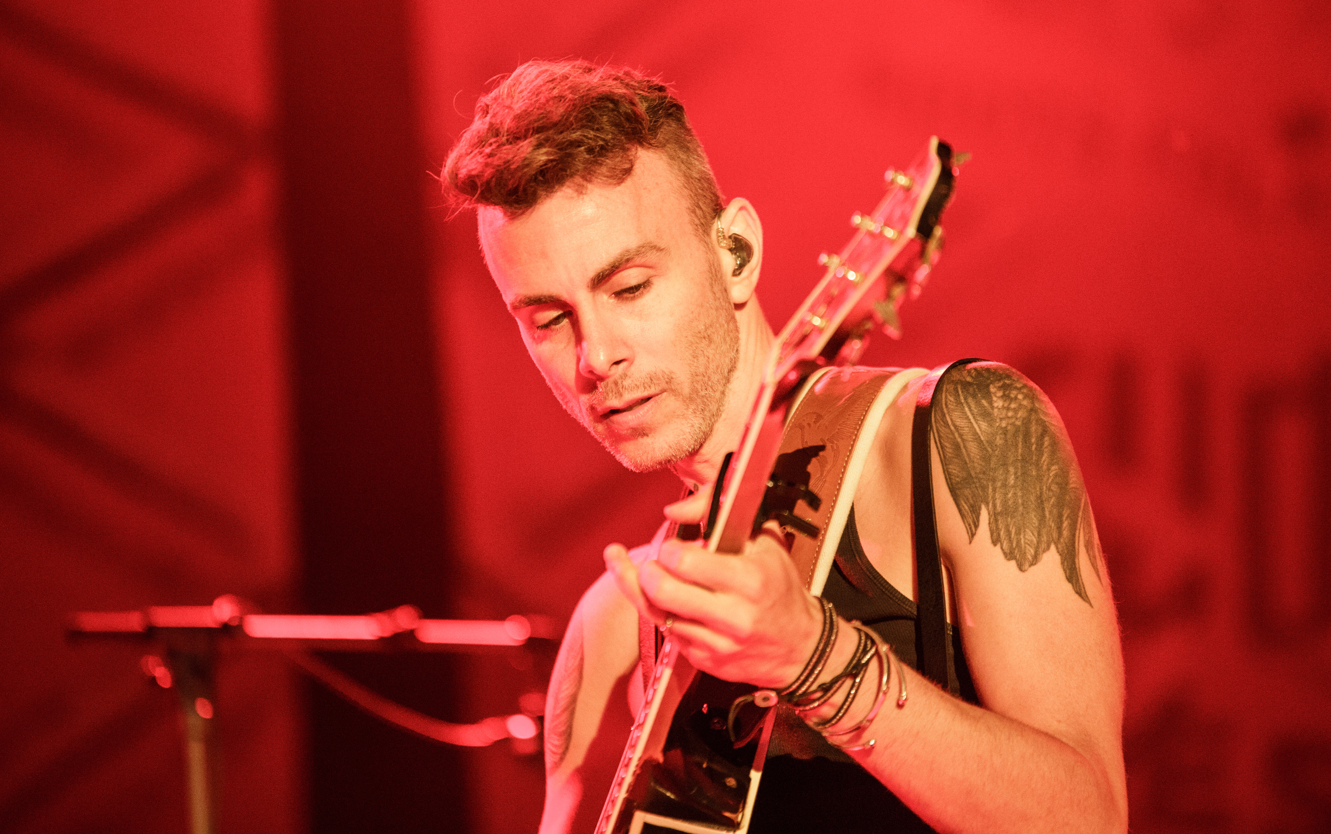 Asaf Avidan at Rudolstadt-Festival 2017.